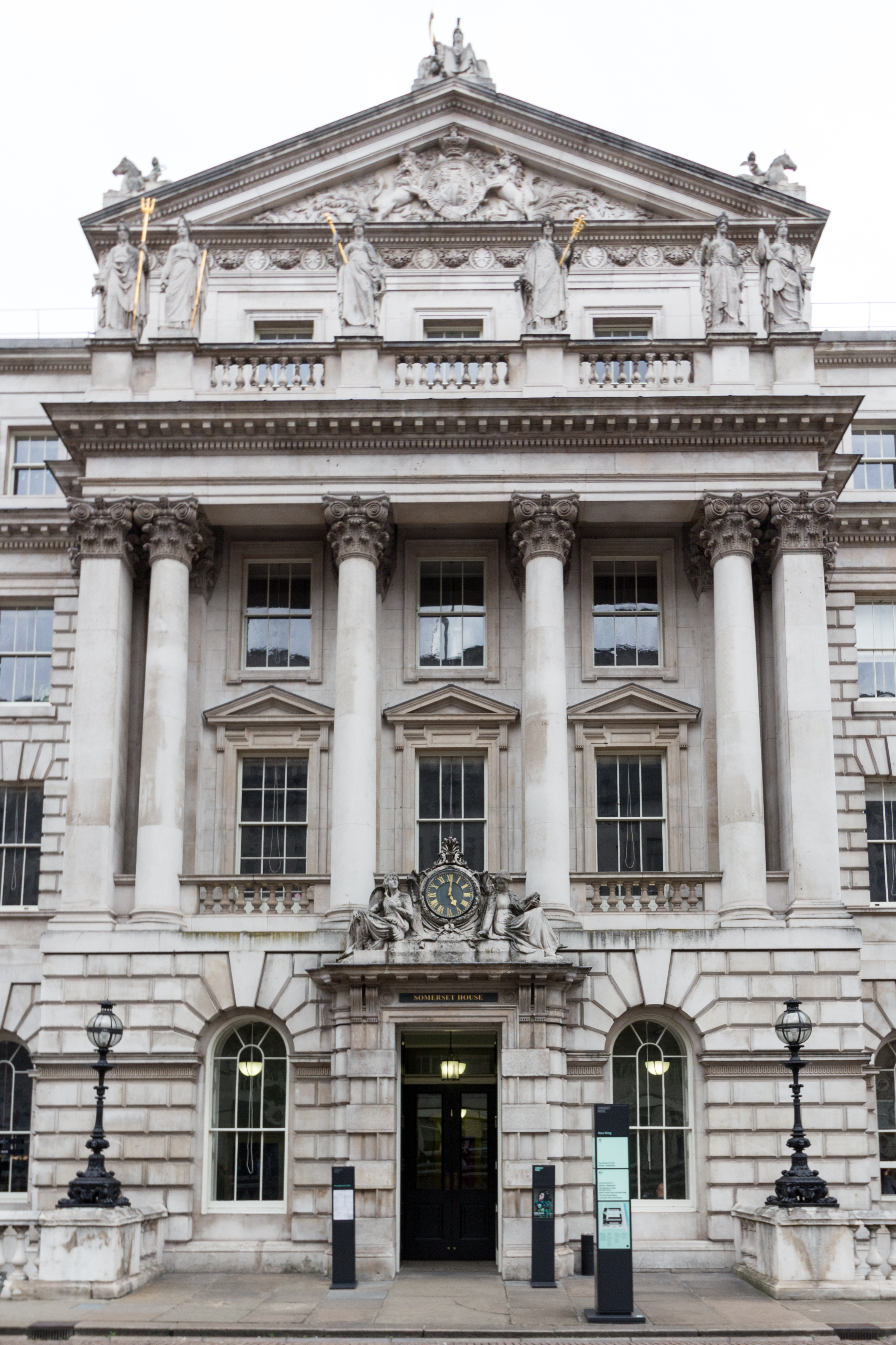 Somerset House New Wing entrance on Lancaster Place